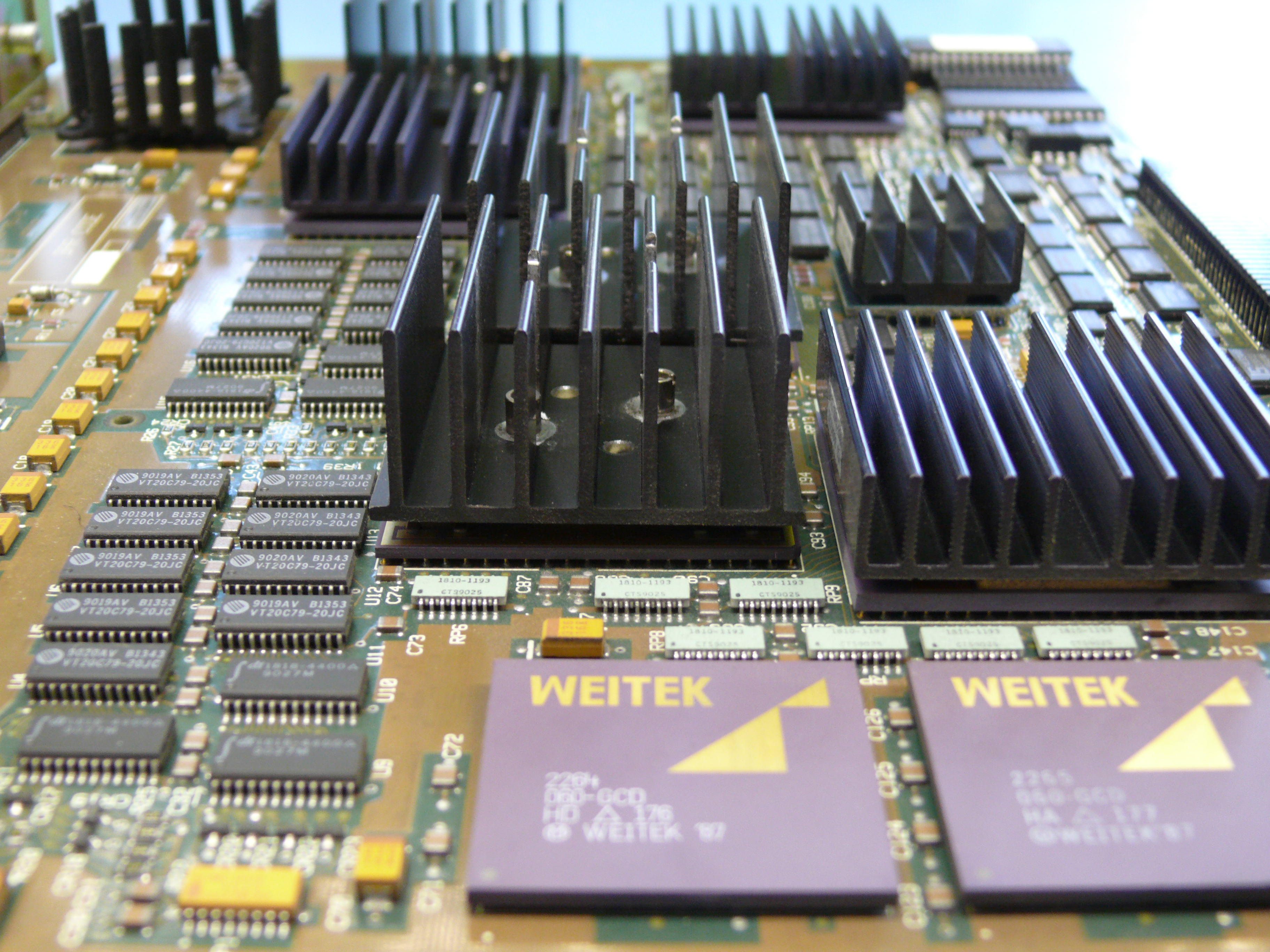 Hewlett-Packard HP9000 PA-RISC NS-2 CPU - 32 Bit - 32 MHz - 183000 FETs - single chip NMOS-III PA-RISC CPU with 7 support chips - HP Part Number: A1027-26510 - two WEITEK math chips